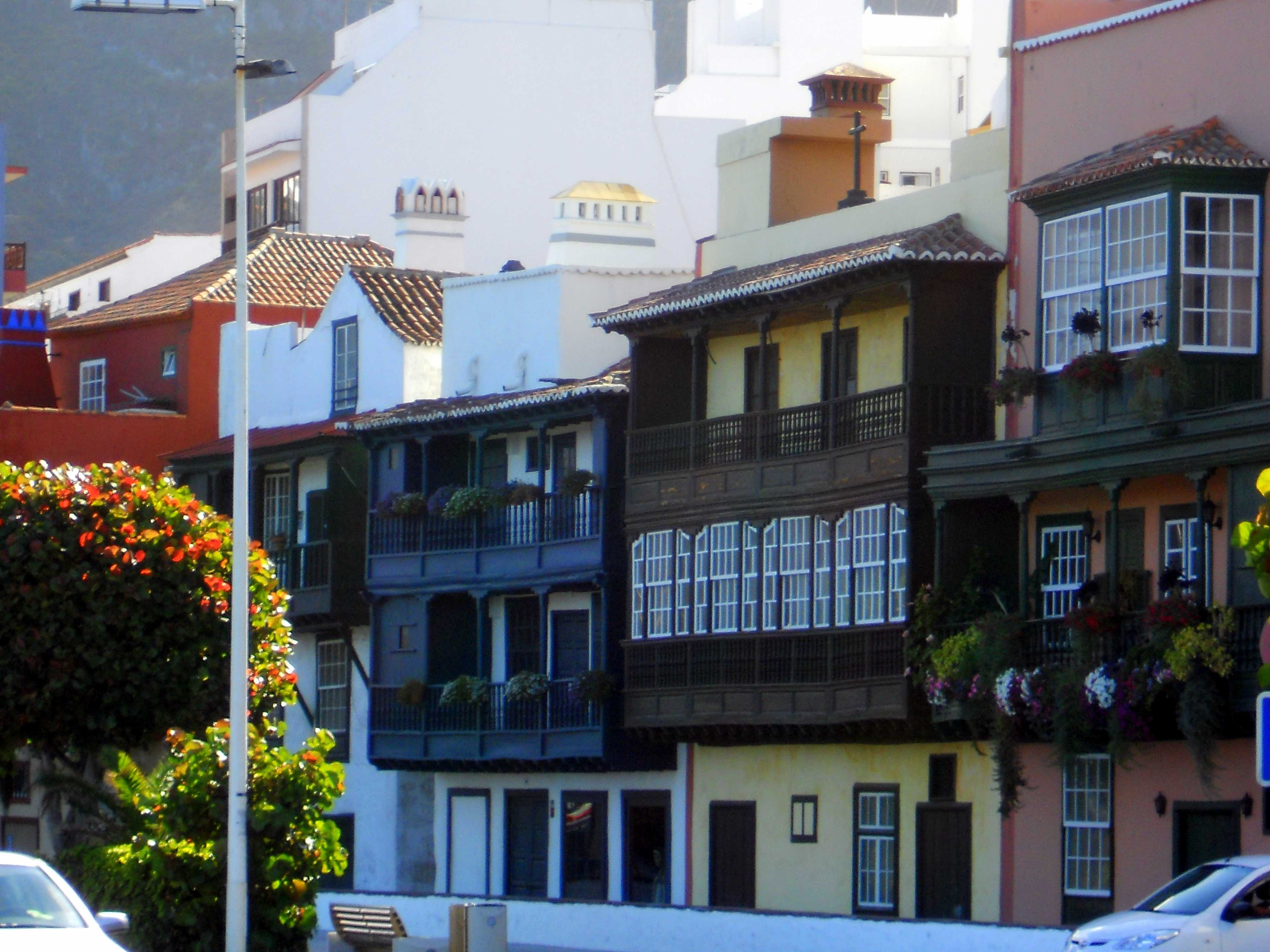 Historical balcony along the esplanade of Santa Cruz de La Palma, Canary Islands, Spain.